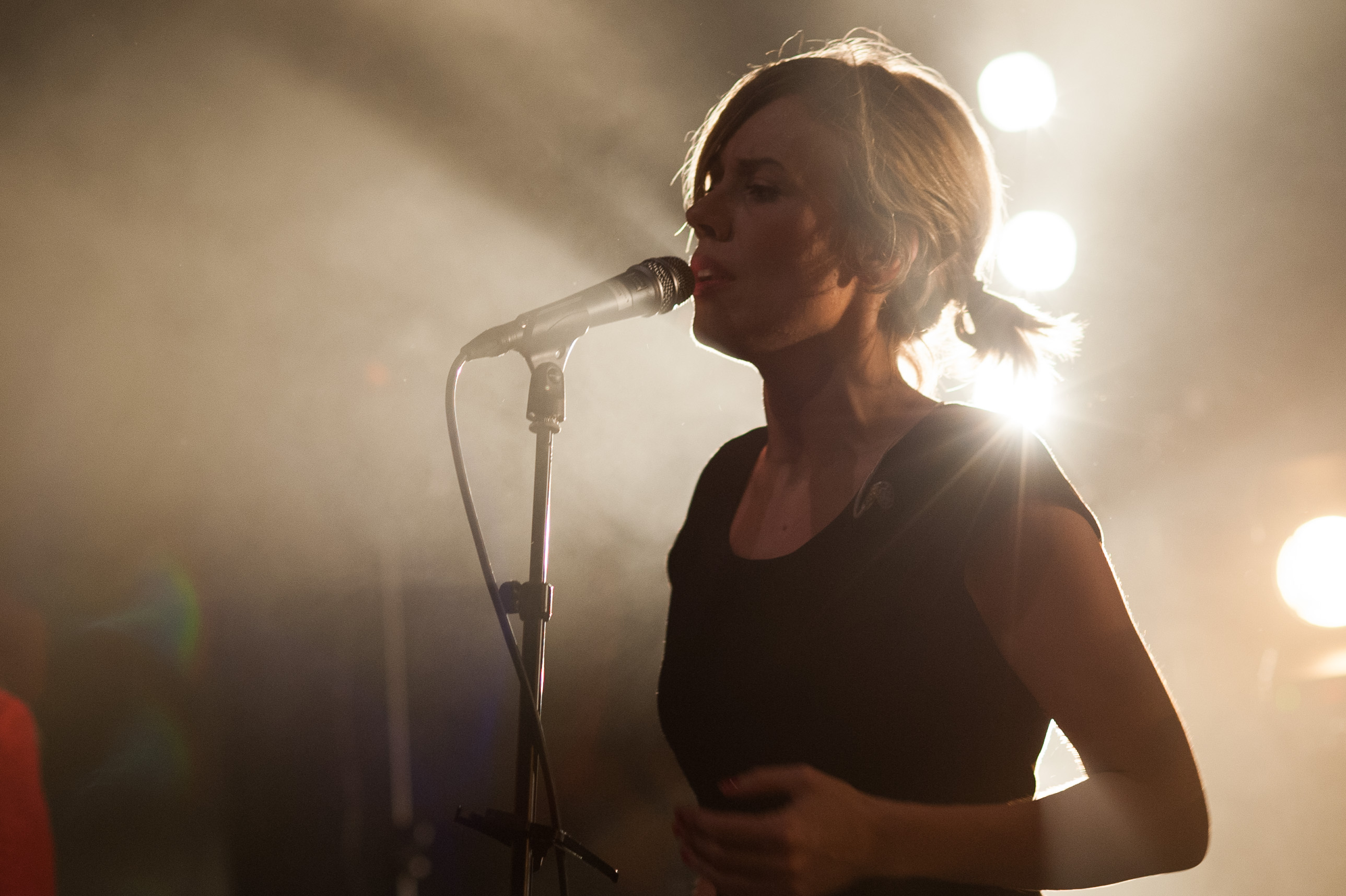 Annika Norlin (Säkert) performing at Kägelbanan in Stockholm, Sweden, December 2010